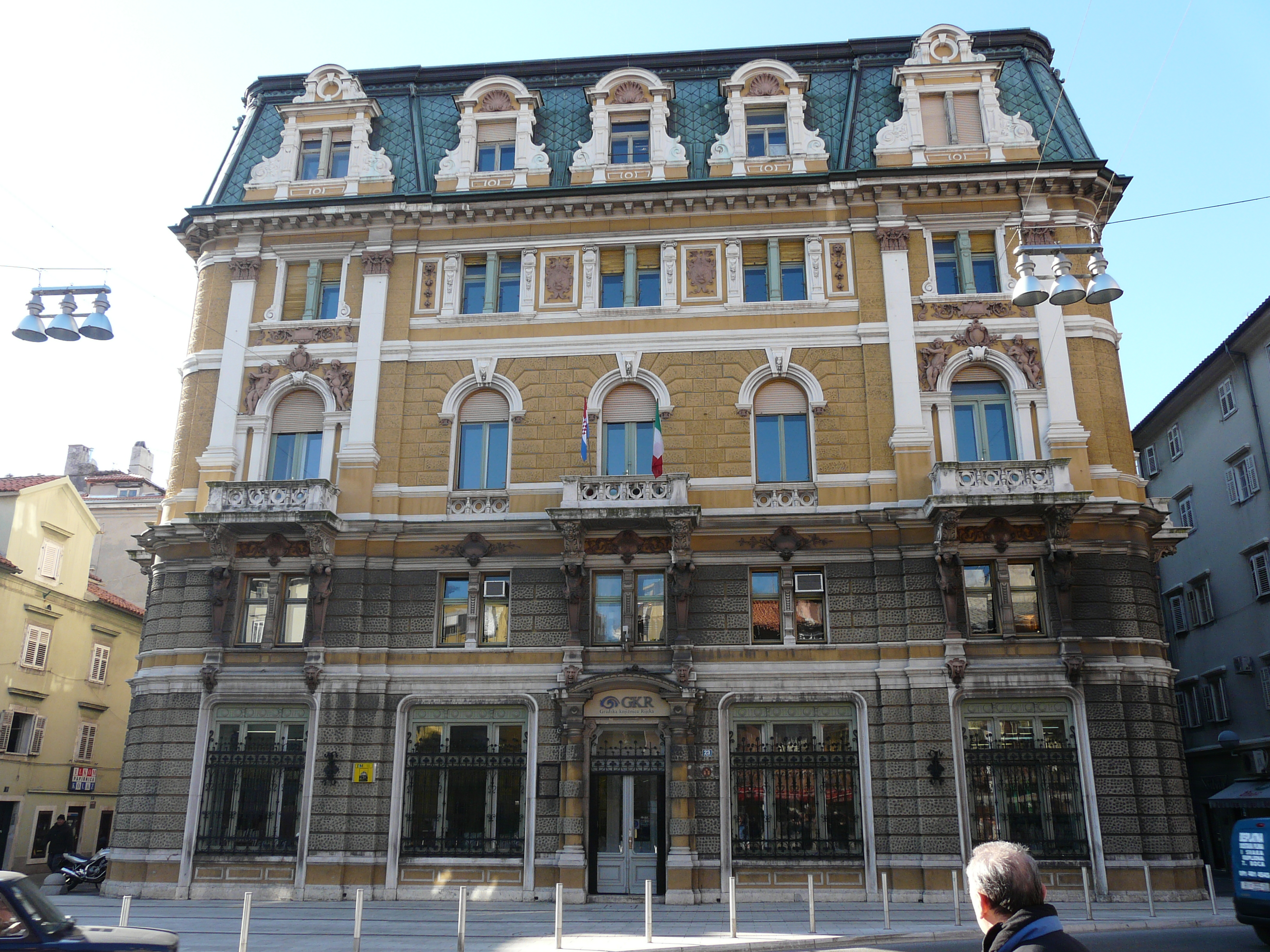 Palace Modello in RIjeka_Croatia_View from Korzo street. February, 2008.